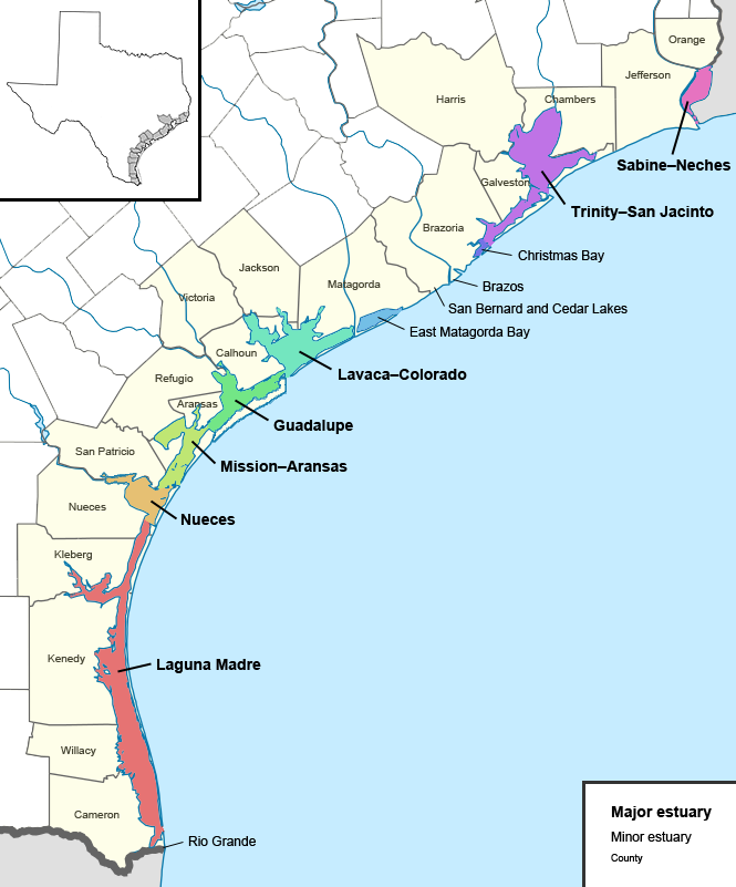 Map of the estuaries of the Gulf Coast of Texas, with coastal counties and major and minor estuaries labeled